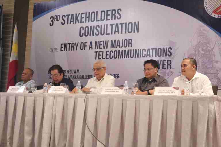 The 3rd Stakeholders Consultation on the Entry of a New Major Telecommunications Player was led by NTC Deputy Commissioner Edgardo Cabarios, Presidential Adviser on Economic Affairs and ICT Ramon Jacinto, DICT Acting Secretary Eliseo Rio, Jr. NTC Commissioner Gamaliel Cordoba and DICT Undesecretary John Henry Naga. (DICT)